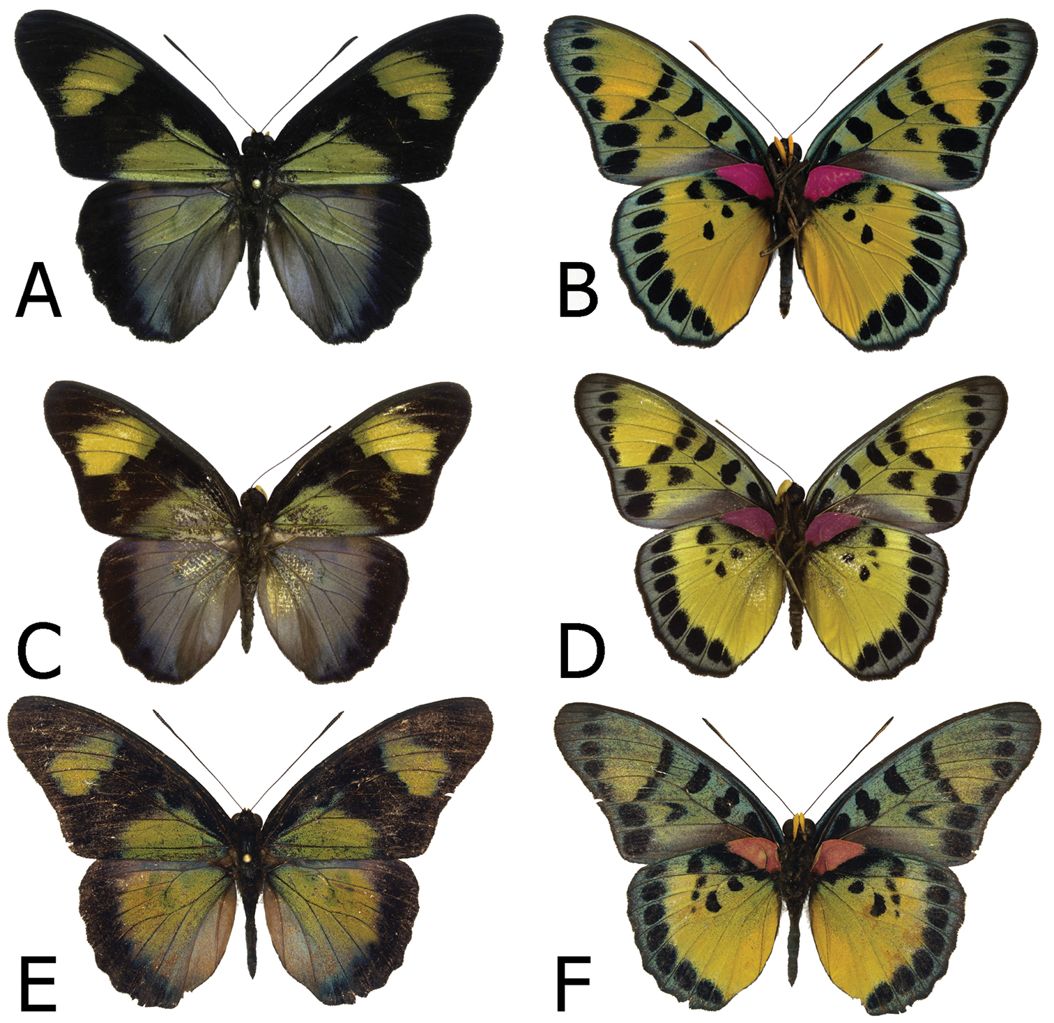 Adults, males: A Euphaedra cyparissa aurantina Bibiani, Ghana, holotype (dorsum) B Euphaedra cyparissa aurantina Bibiani, Ghana, paratype (venter) C Euphaedra cyparissa aurata Isheri, Nigeria (dorsum) D Euphaedra cyparissa aurata Isheri, Nigeria (venter) E Euphaedra cyparissa nominalina Mongoumba, R. C. A., holotype (dorsum) F Euphaedra cyparissa nominalina Mongoumba, R. C. A., holotype (venter).